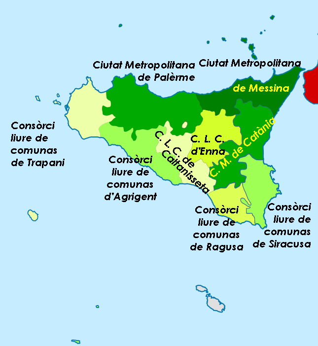 Sicily divisions from 2016 CM = Metropolitan City CLC = Free Commune Consortium